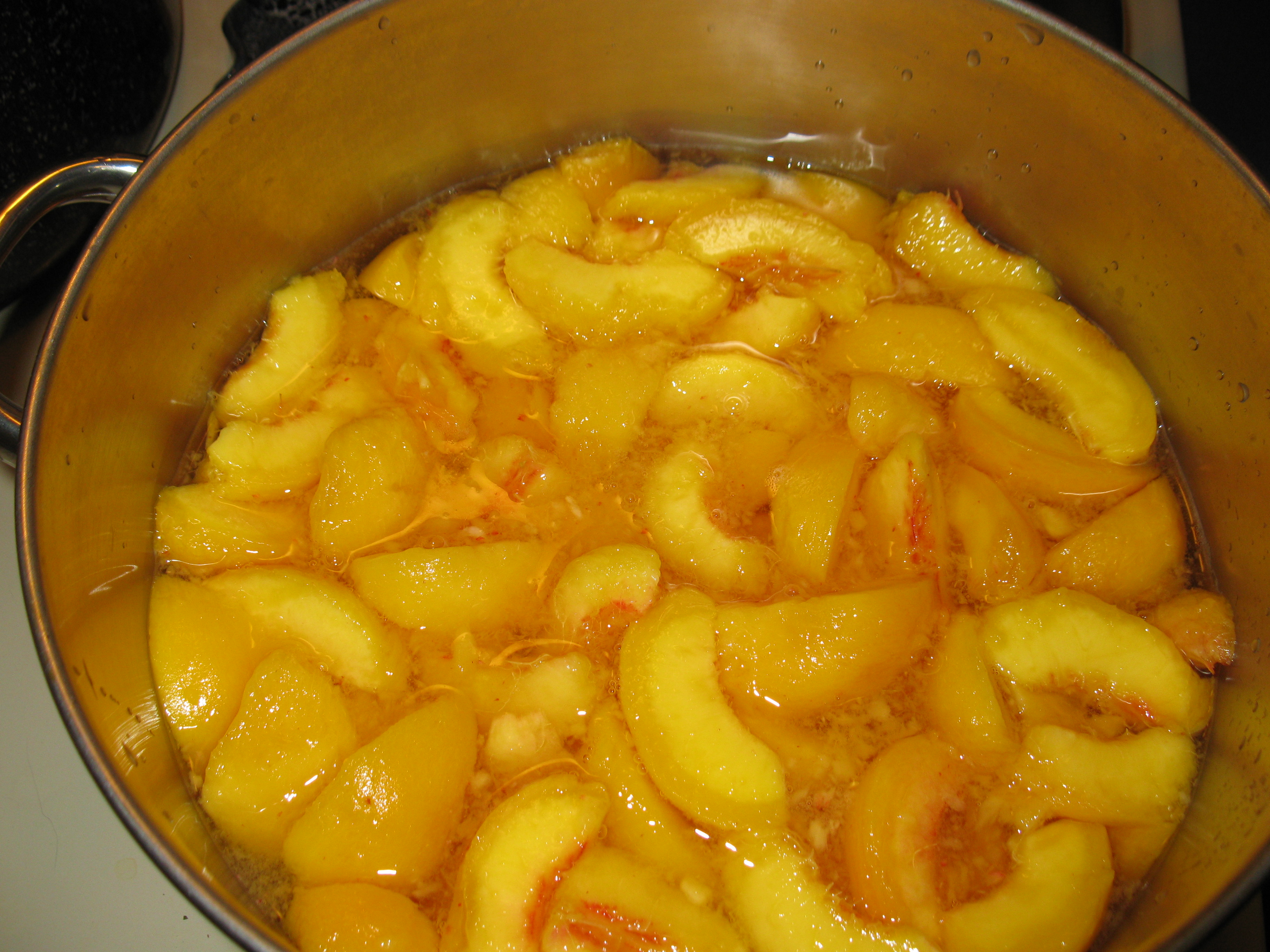 In order for peaches to be prepared in syrup, it is necessary to use a metal pot or pan in which they can be exposed to heat and get some delicious pickled peaches.